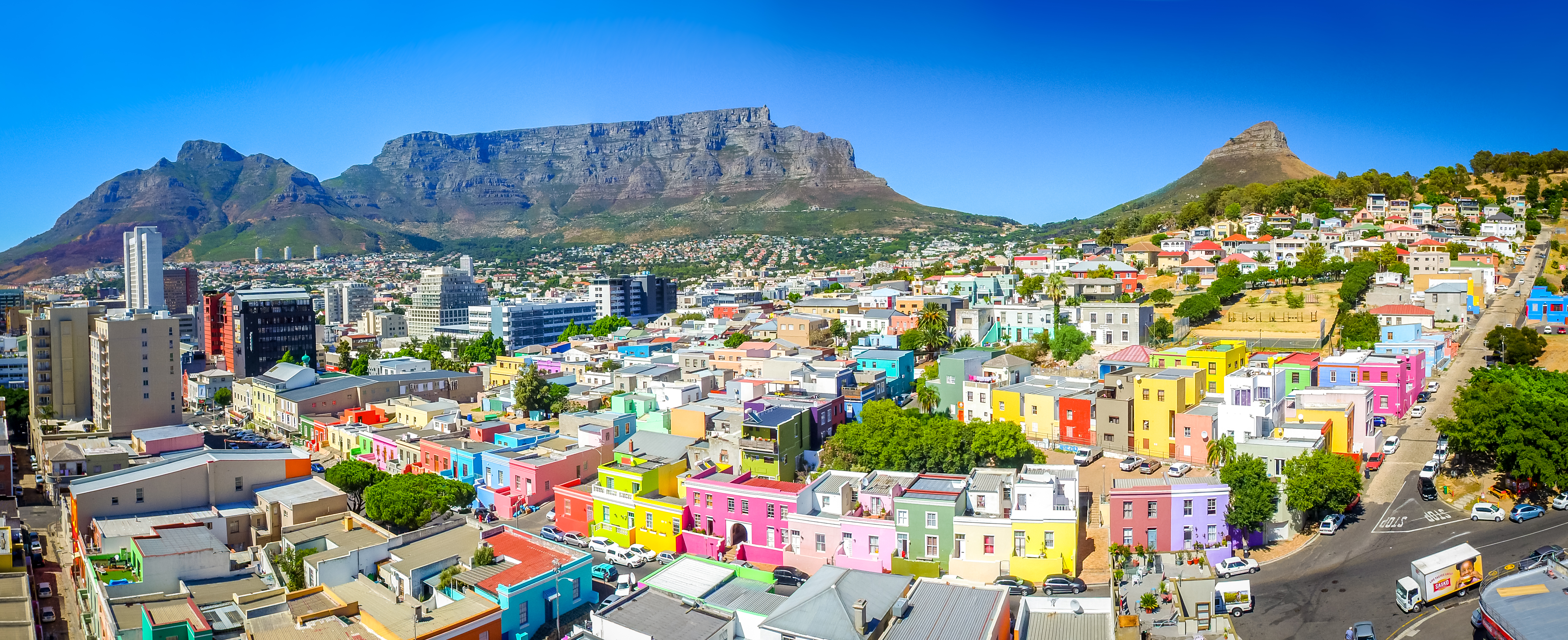 The iconic tourist attraction Bo-Kaap houses.